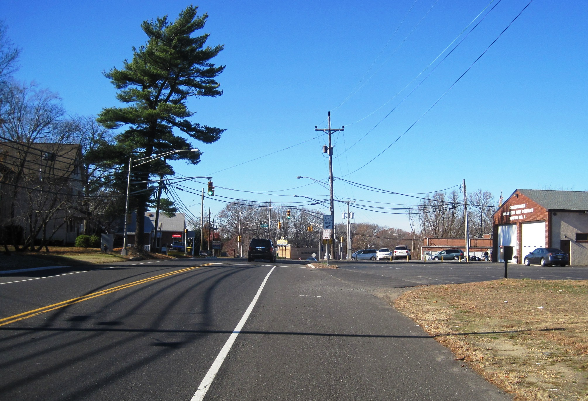 Photo of Cheesequake, New Jersey, an unincorporated community within Old Bridge Township, Middlesex County. Photo taken along northbound New Jersey Route 34 at Old Mill Road.